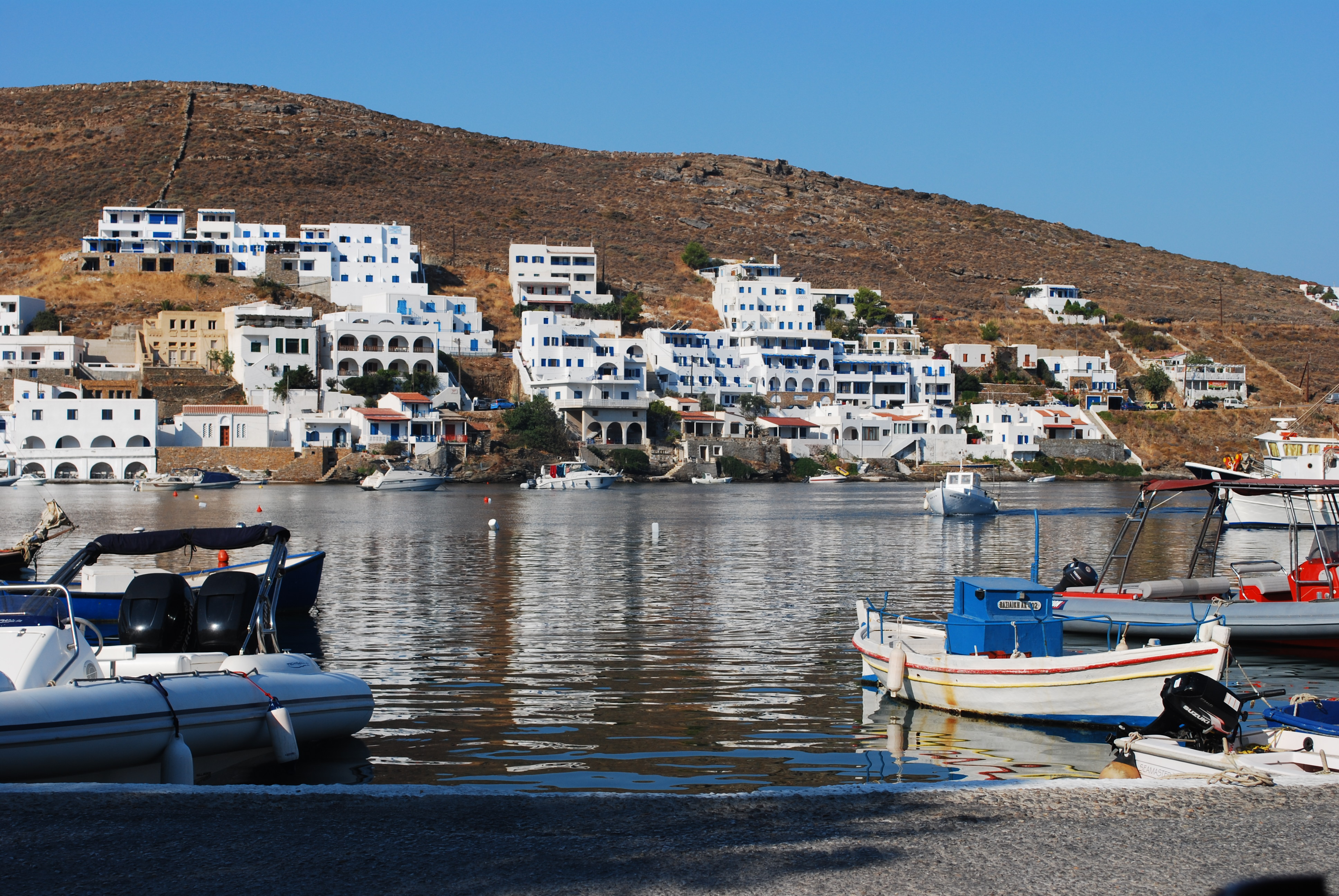 Kyhtnos Greece